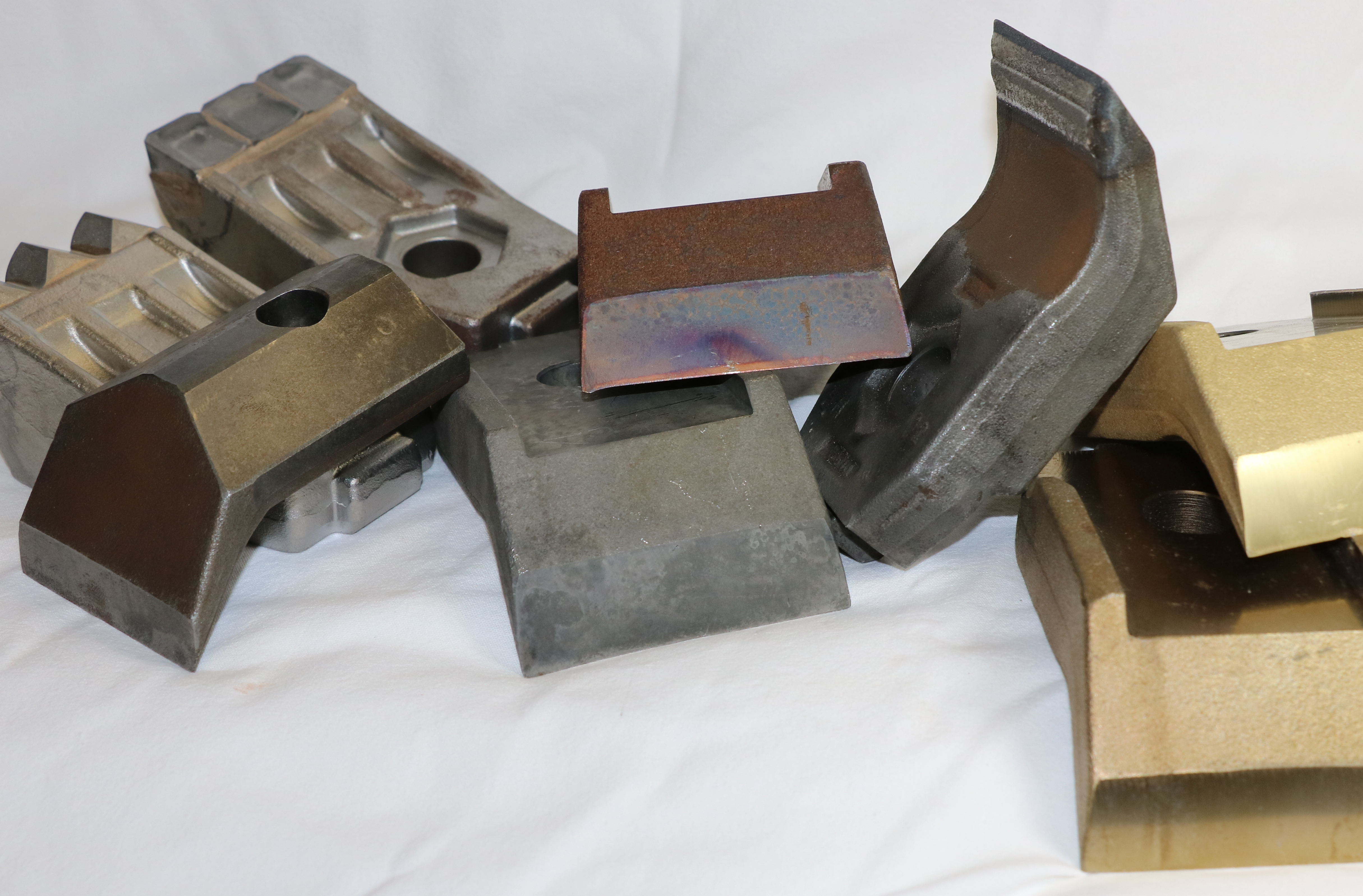 A variety of different blades and hammers for forestry mulching